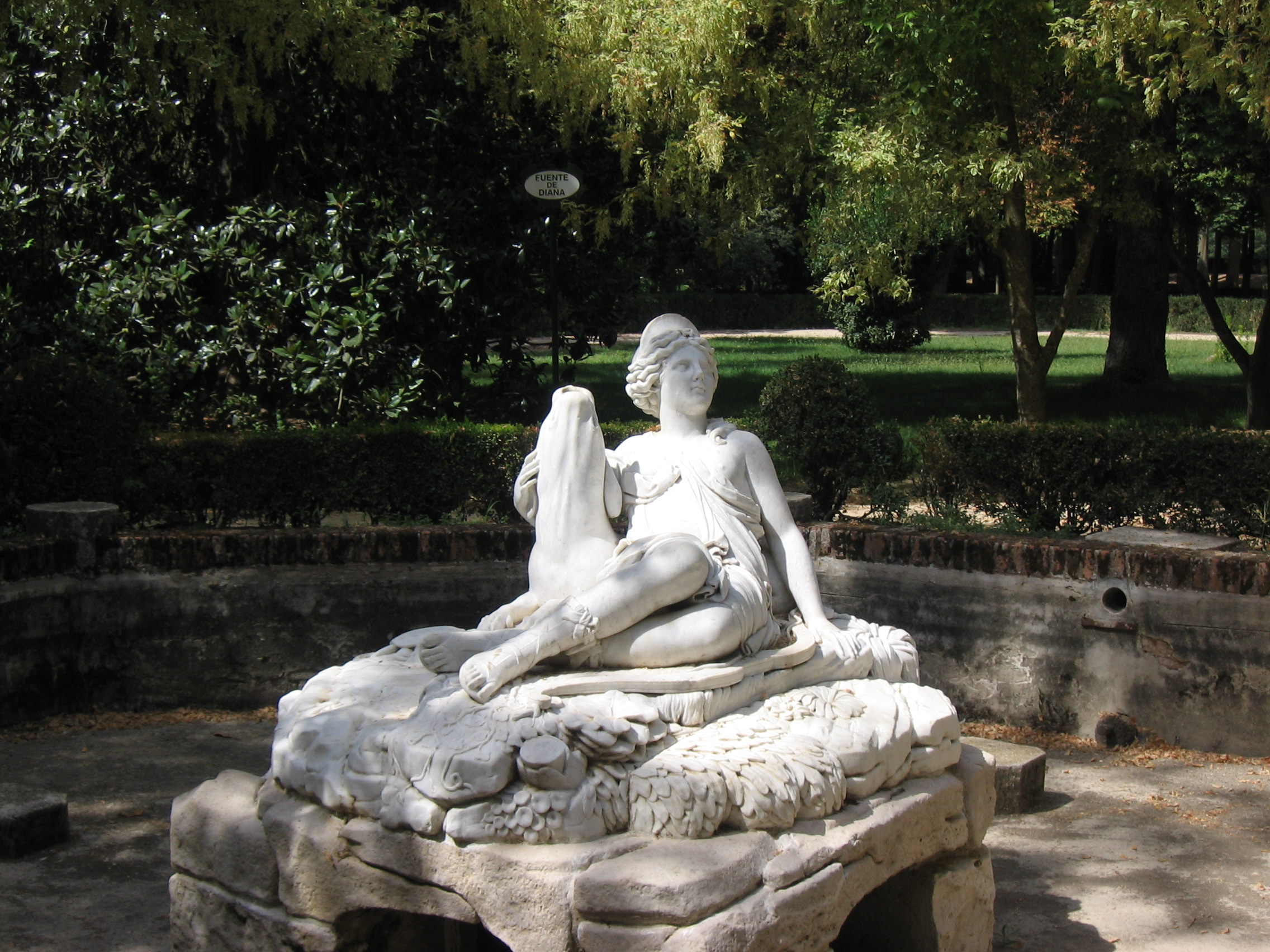 Diana's Fountain of the Island's Garden of Aranjuez.